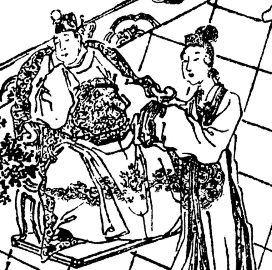 Description Emperor Xian of Han (seated) with his wife, Empress Fu Shou. Detail from a Qing Dynasty edition of the Romance of the Three Kingdoms. DateUnknown dateUnknown dateSourceImage:Death of Consort Dong.pngAuthorUnknownPermission(Reusing this file) This picture is Public Domain because of its age. Emperor Xian of Han (seated) with his wife, Empress Fu Shou. Detail from a Qing Dynasty edition of the Romance of the Three Kingdoms.